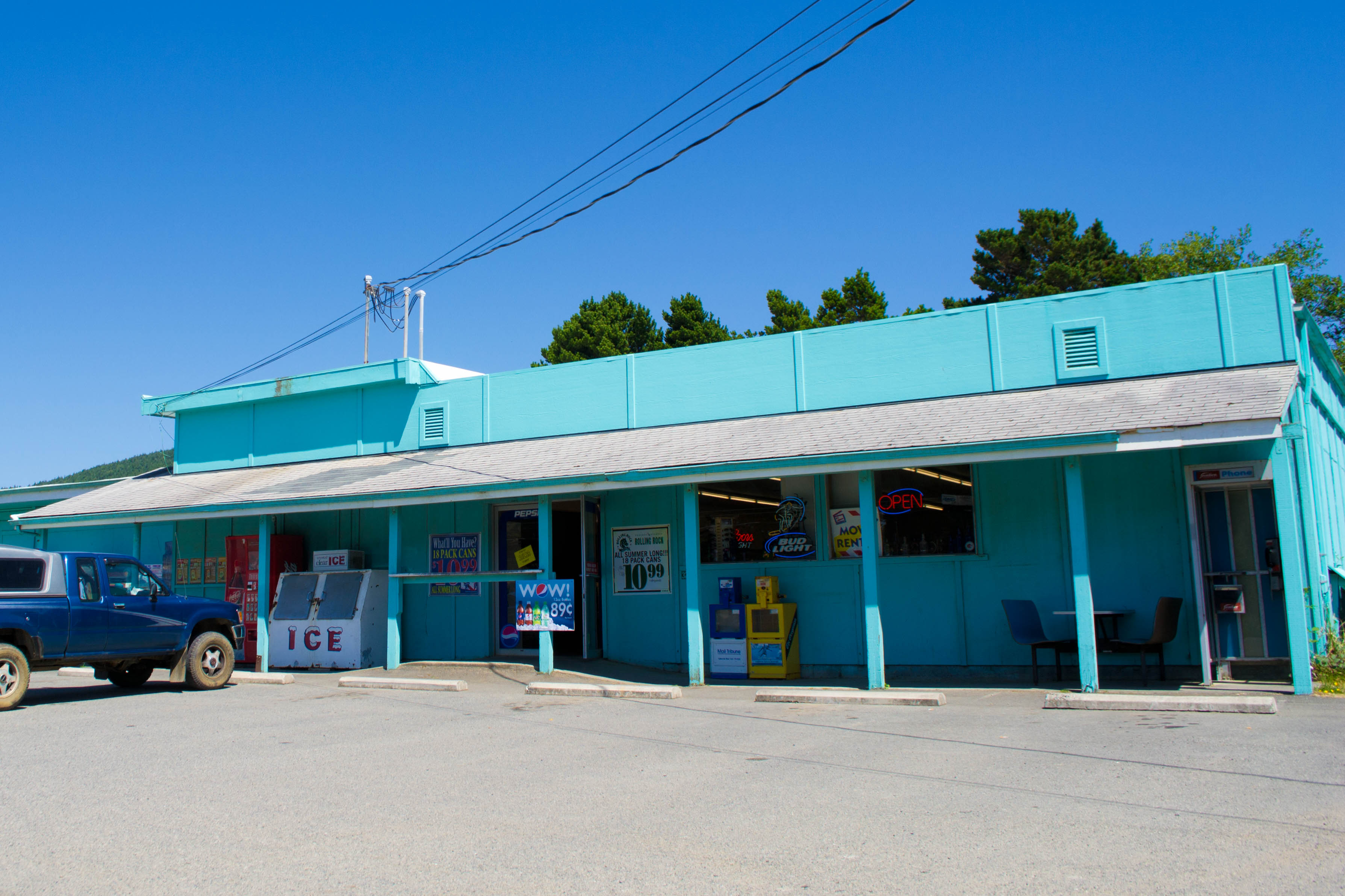 The Nesika Beach Store is adjacent to the Ophir Post Office.